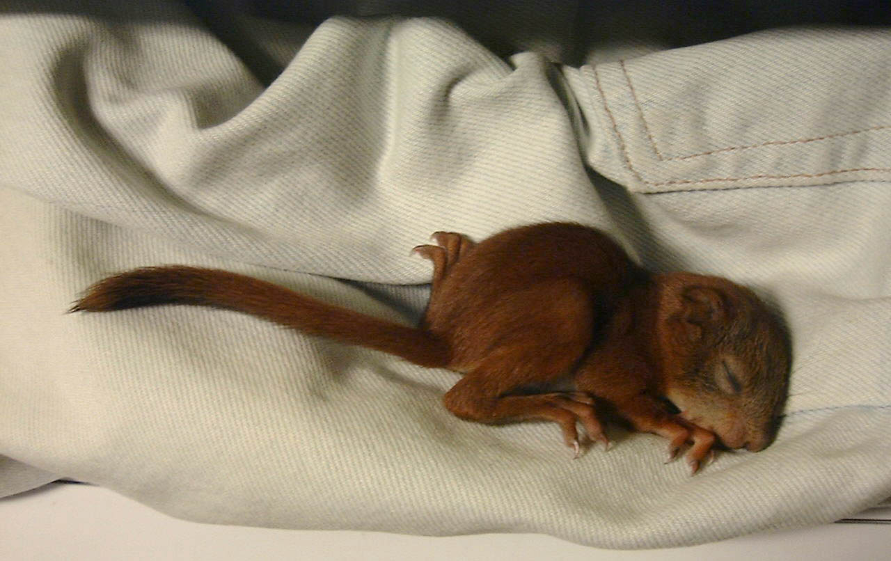 A two weeks old squirrel baby (Sciurus vulgaris).